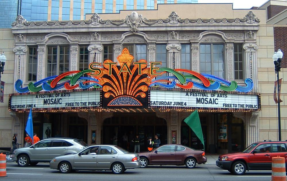 The State Theatre on Hennepin Avenue in Minneapolis, Minnesota. Photo taken June 4, 2005 by User:Mulad. Hereby released into the public domain.